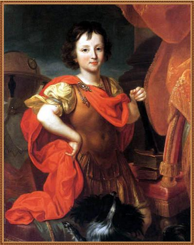 Portrait of Philippe II, Duke of Orléans (1674-1723) as the Duke of Chartres; future Regent of France